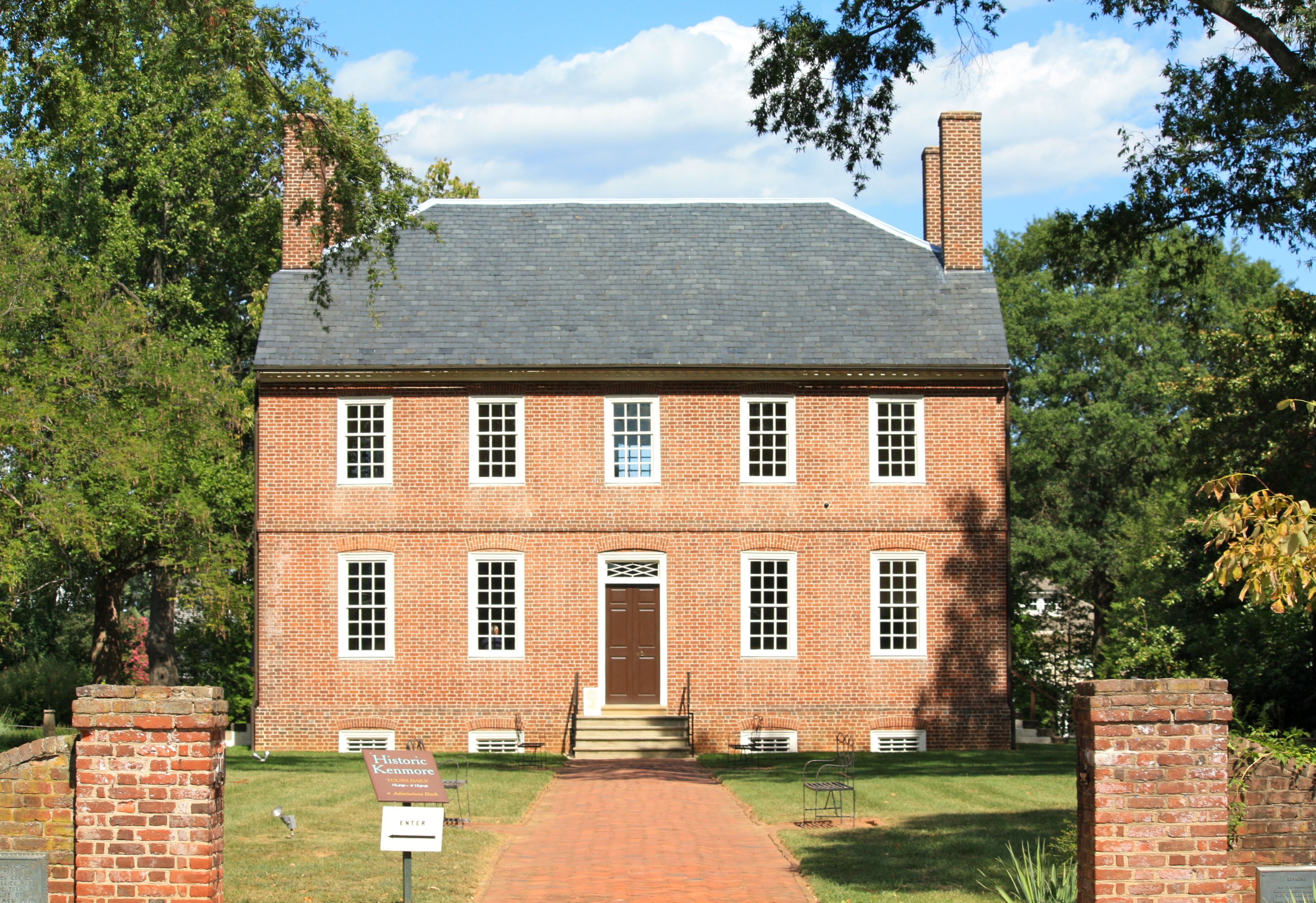 The front of historic Kenmore House in Fredericksburg, VA.